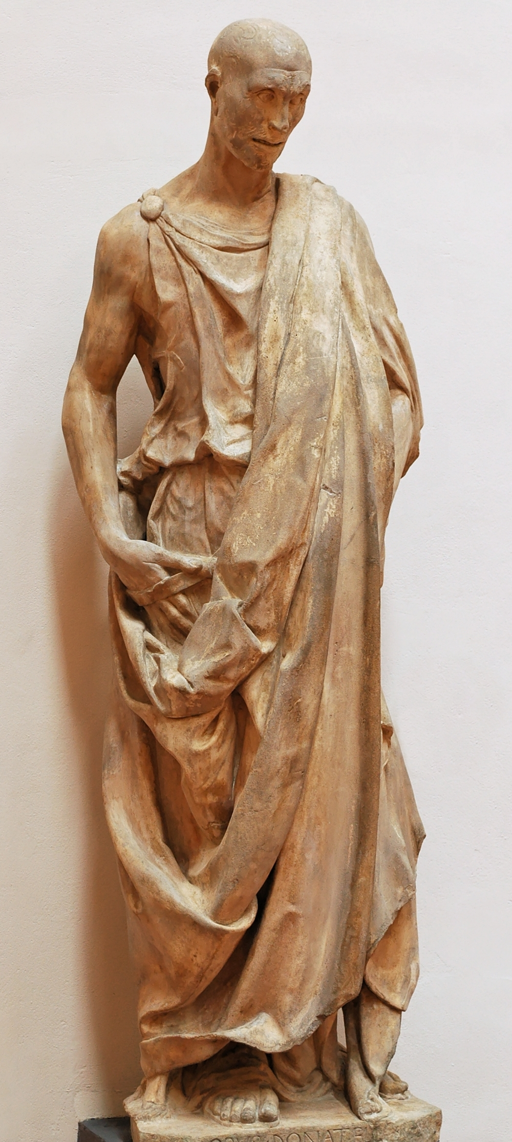 Statue of Habacuc, better known as "Zuccone" ("pumpkin"). From the bell tower of the Duomo of Florence, Italy